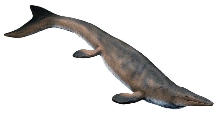 Life reconstruction of Mosasaurus missouriensis